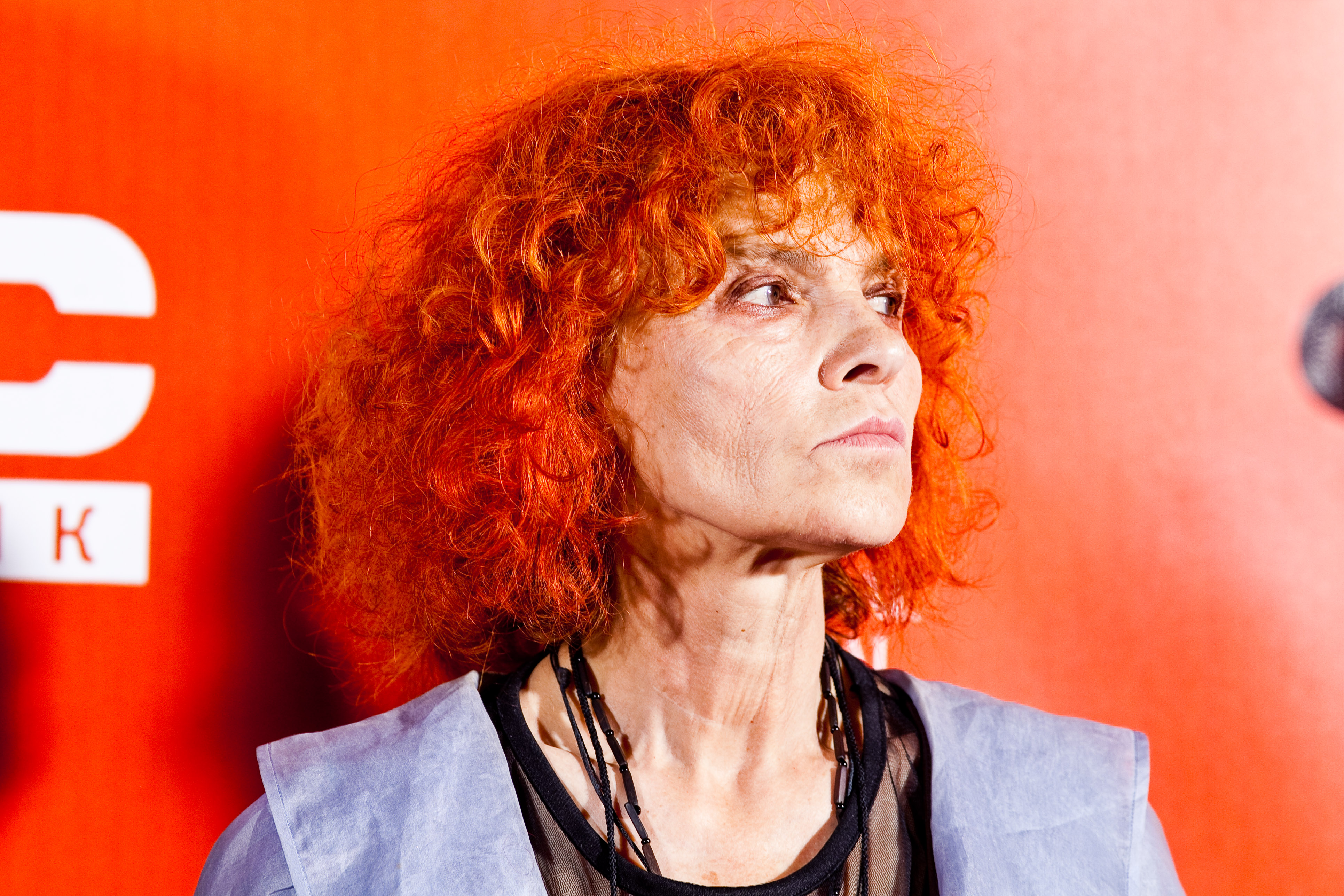 Director Nana Jorjadze on the Odessa International Film Festival, July 2013